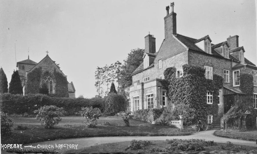 Abstract: Image of a photograph mounted on a board.